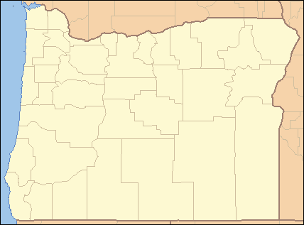 Locator Map of Oregon, United States